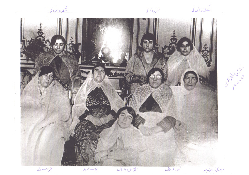 Some of the daughters of Mozaffar-ed-Din Shah From left to right, back row standing: Princesses Shokouh-os-Saltaneh, Anvar-ed-Dowleh, Shokouh-ed-Dowleh From left to right, front row seated: Princesses Ghamar-os-Saltaneh, Ezzat-ed-Dowleh II, Nour-os-Saltaneh, (Mochoul khanoum "nadimeh") Front center seated: Princess Aghdas-os-Saltaneh